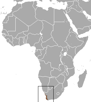 Cape Golden Mole (Chrysochloris asiatica) range